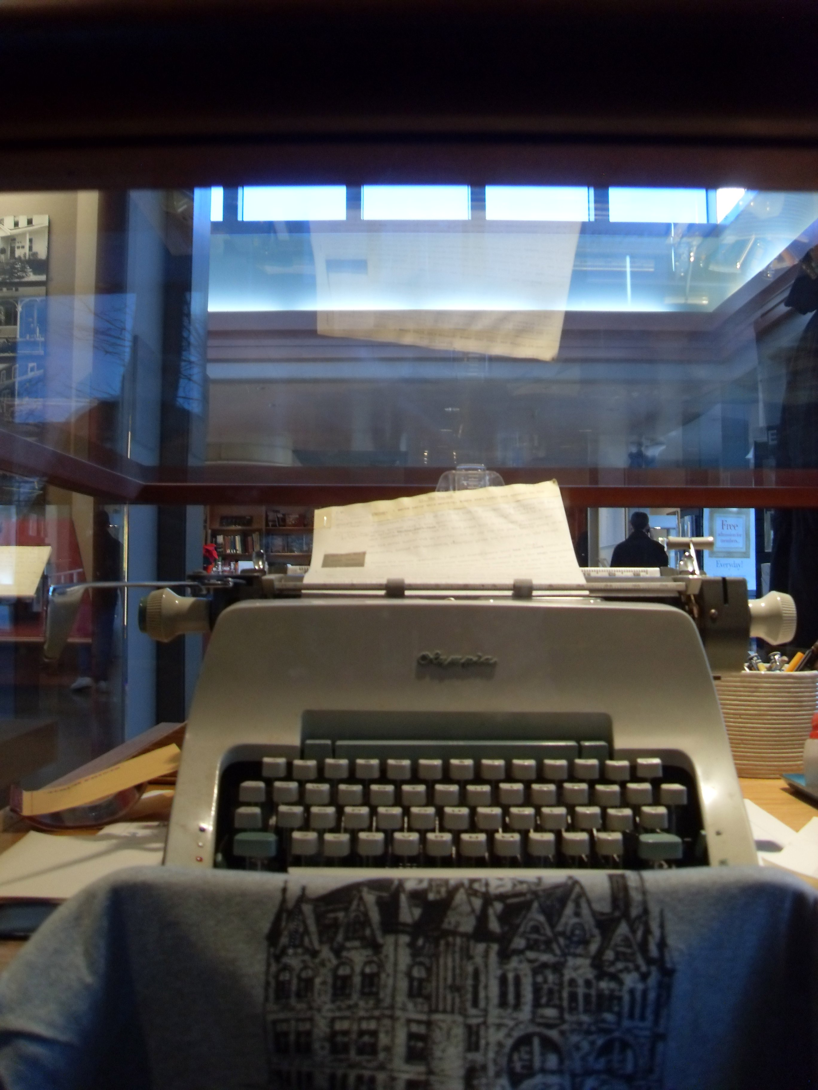 Michener's Olympia typewriter, James A. Michener Museum, Doylestown, Pennsylvania